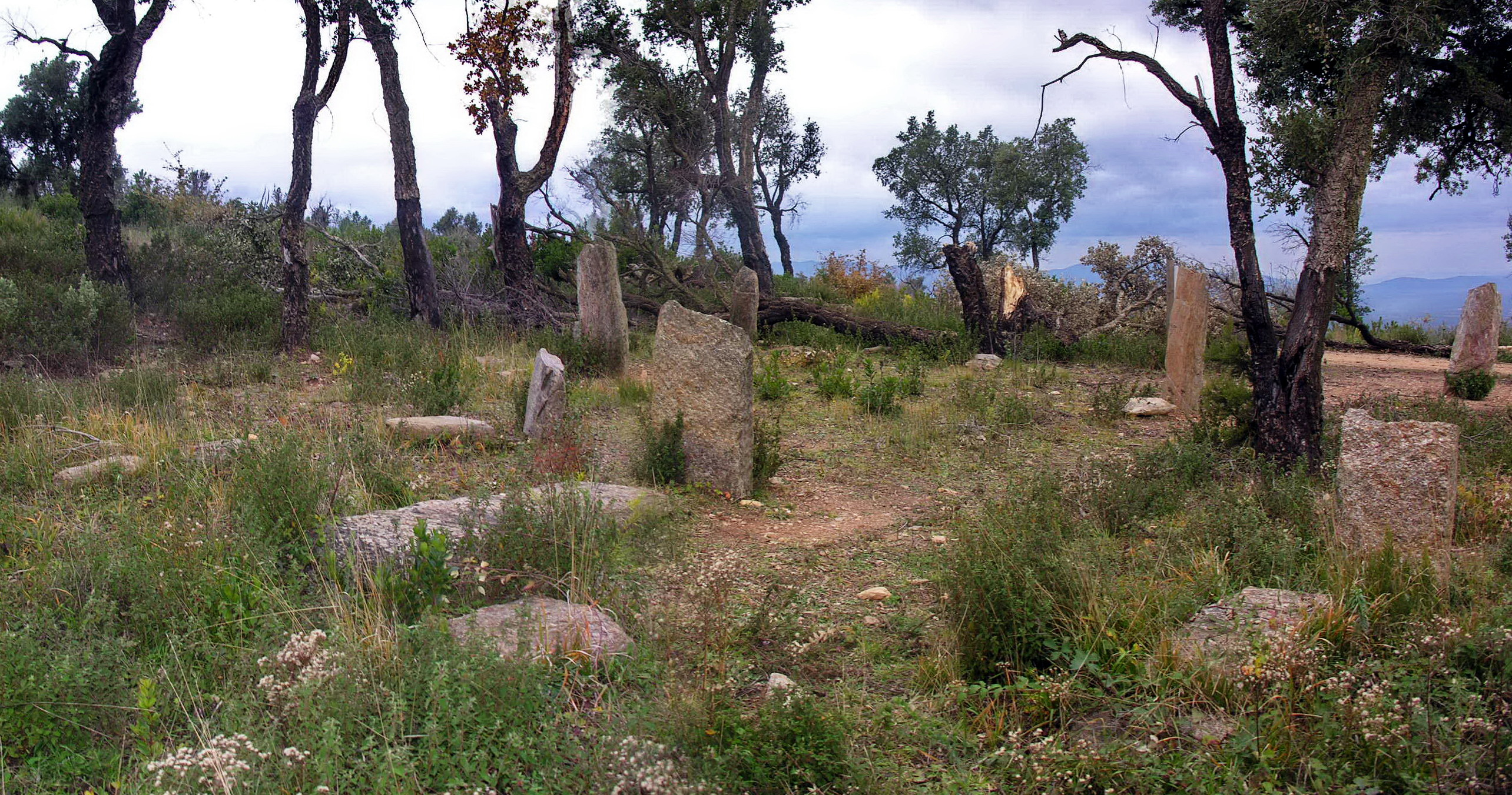 Les Arcs sur Argens: 9 Menhirs in "Terriers"